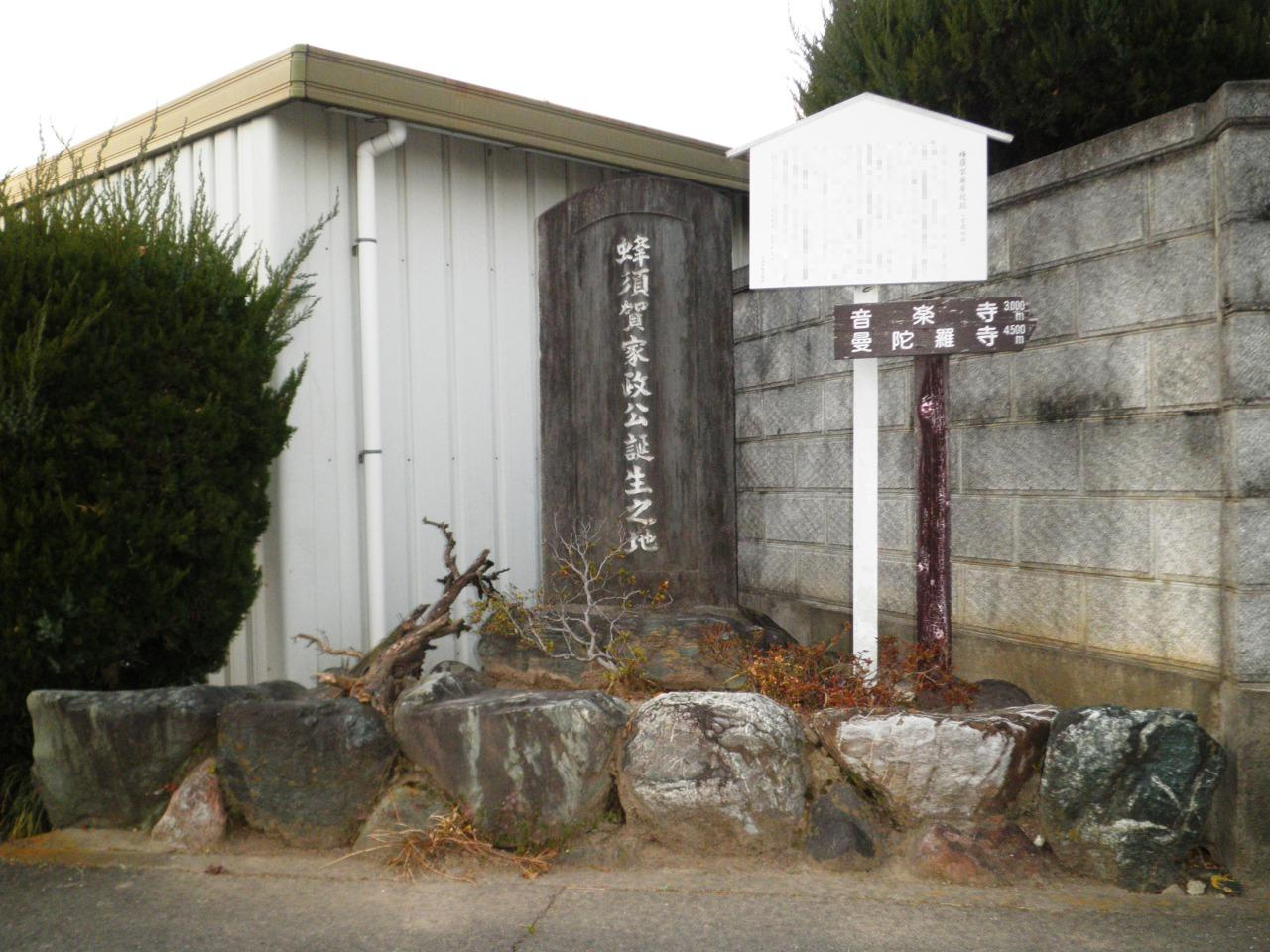 Birthplace of Hachisuka Iemasa in Kōnan, Aichi.